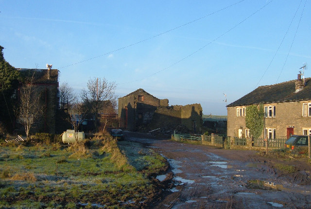 Whitefield Hall, in Shaw and Crompton, Greater Manchester, England.